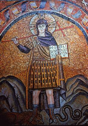 Mosaic in Archiepiscopal Chapel (Ravenna) representing Christ as a warrior